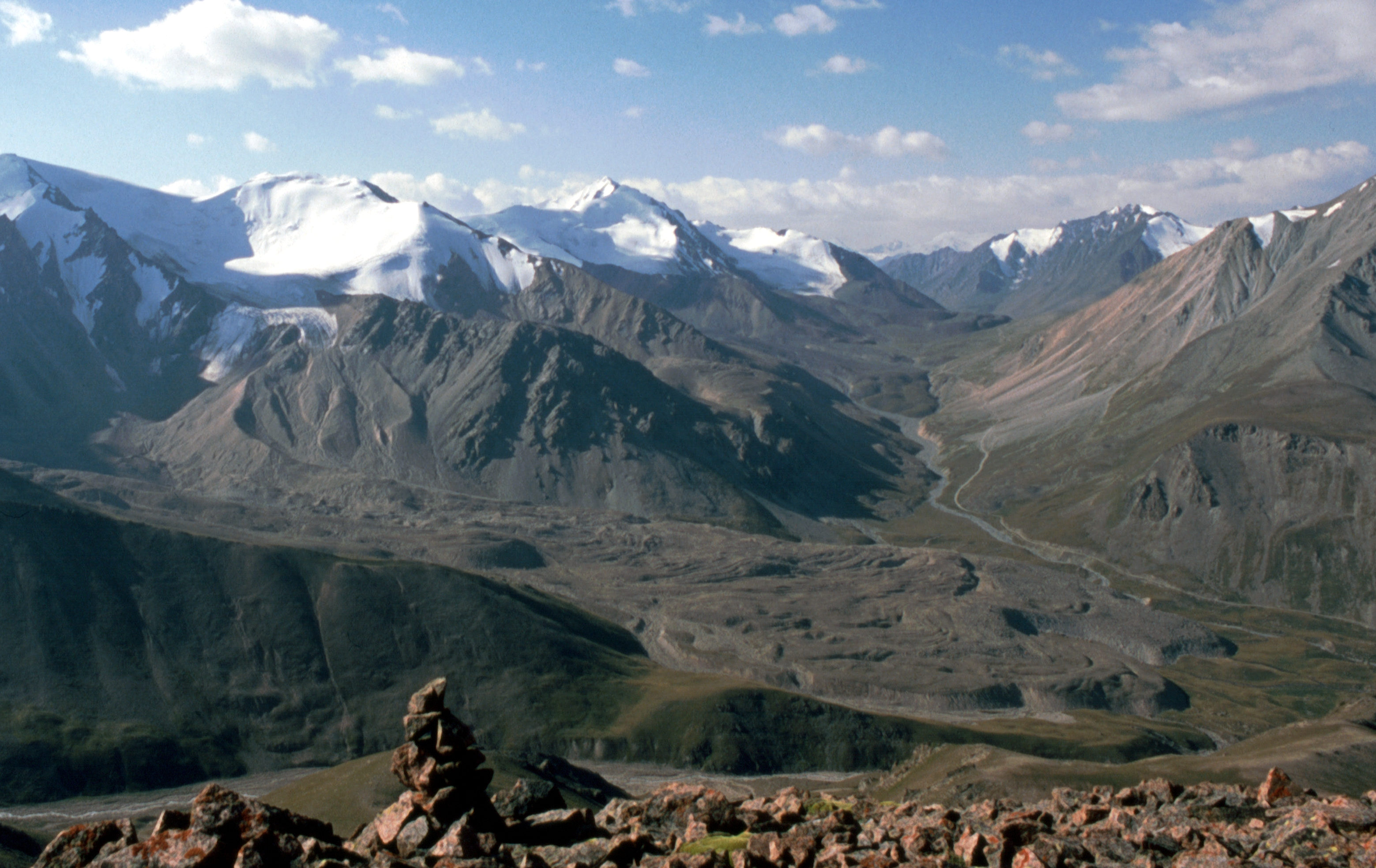 Rock Glacier 'Gorodetsky' in the Northern Tien Shan (August 2005). Lower boundary at 3150m. View from Pik Sovjetov south to Osjornyj-Pass/Border to Kyrgyzstan.